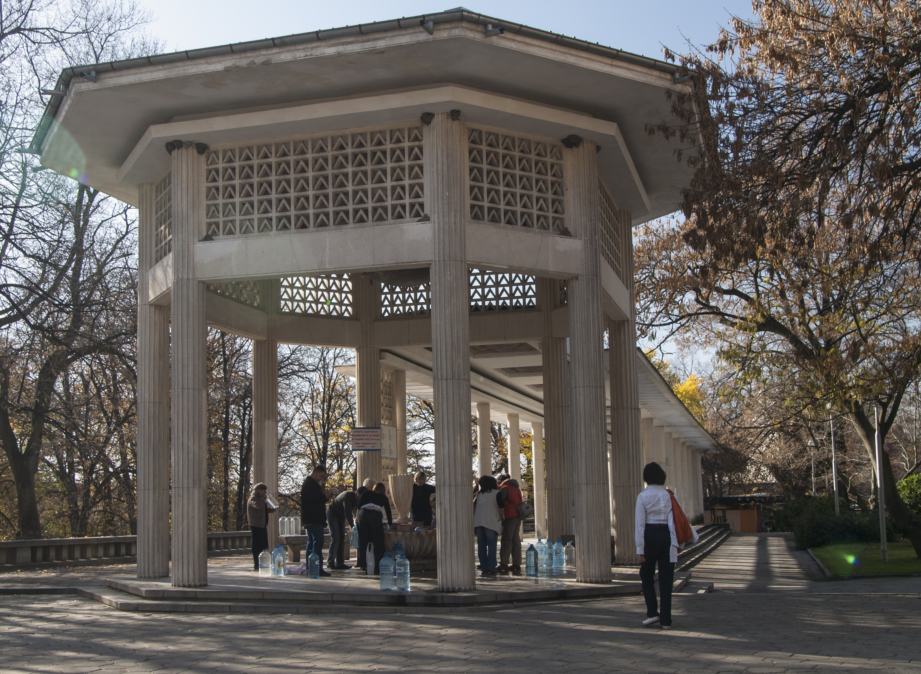 Hissarya Communal mineral water source, Bulgaria